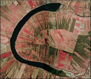 U.S. Army Corps of Engineers Photo